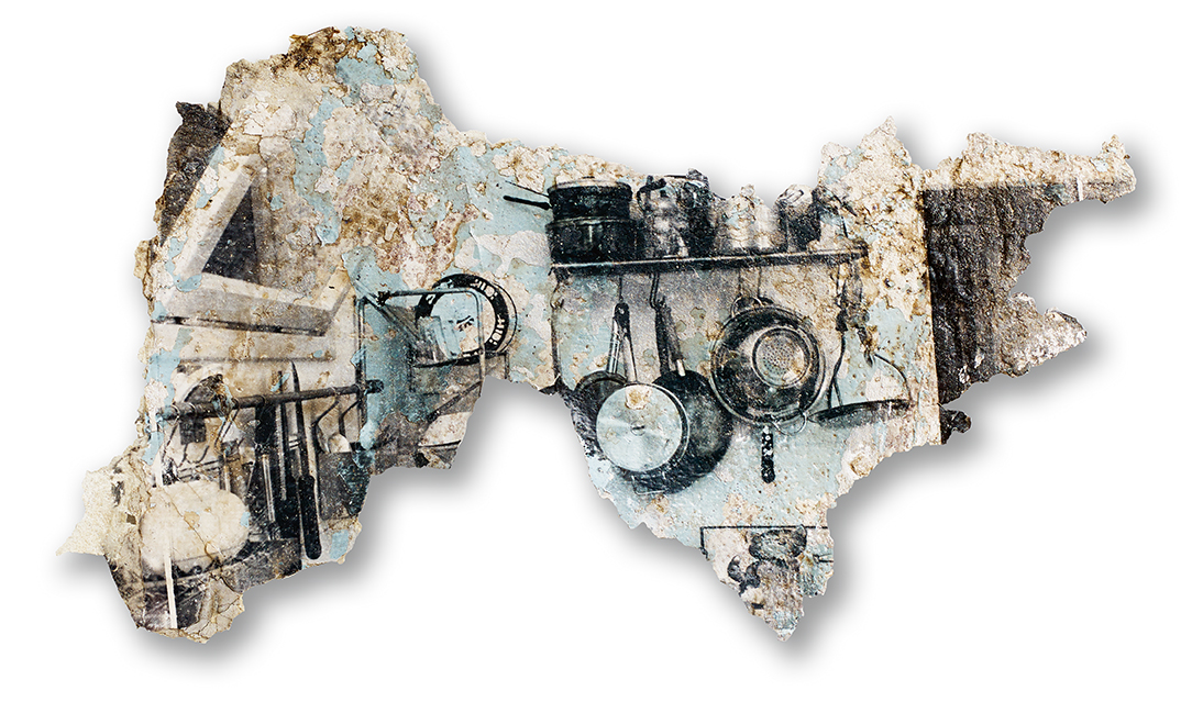 38 Days of Re-Collection (2014) by Steve Sabella, B&W white film negatives (generated from digital images) printed with B&W photo emulsion spread on color paint fragments collected from Jerusalem’s Old City house walls